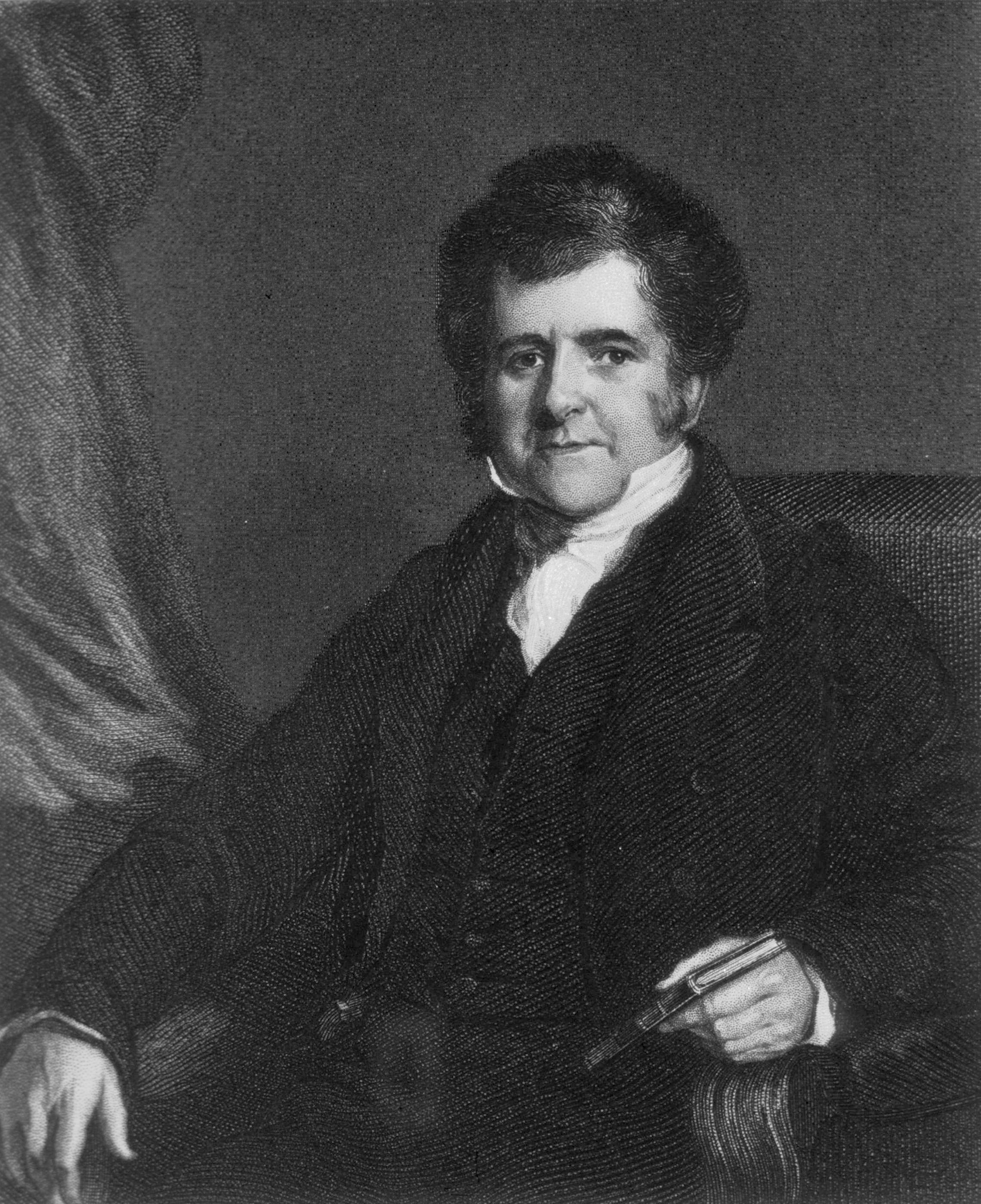 Portrait of Richard Bright (1789–1858), English physician. From Thomas Joseph Pettigrew, Medical Portrait Gallery vol. 2 (1838).